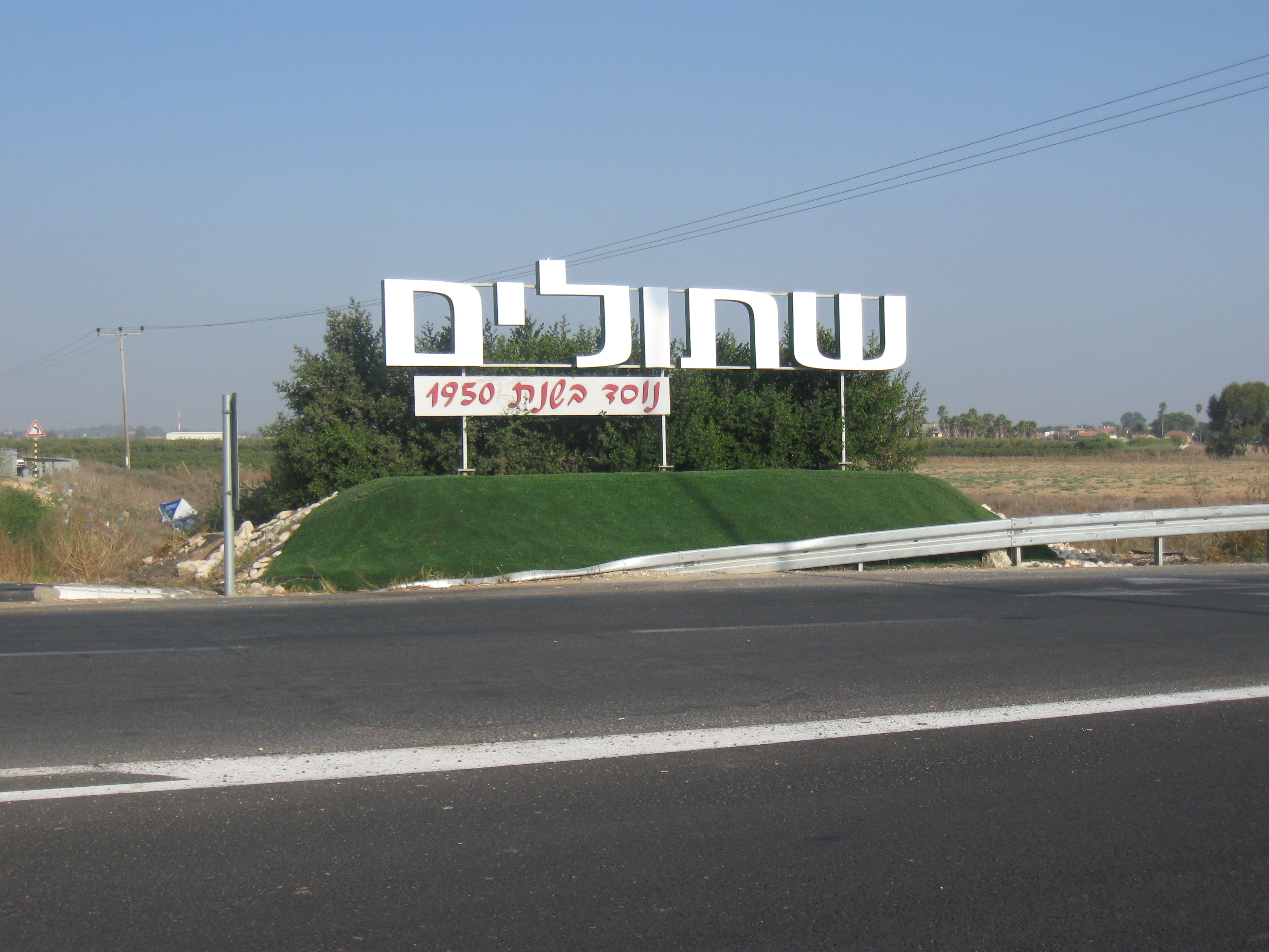 שלט הכניסה למושב